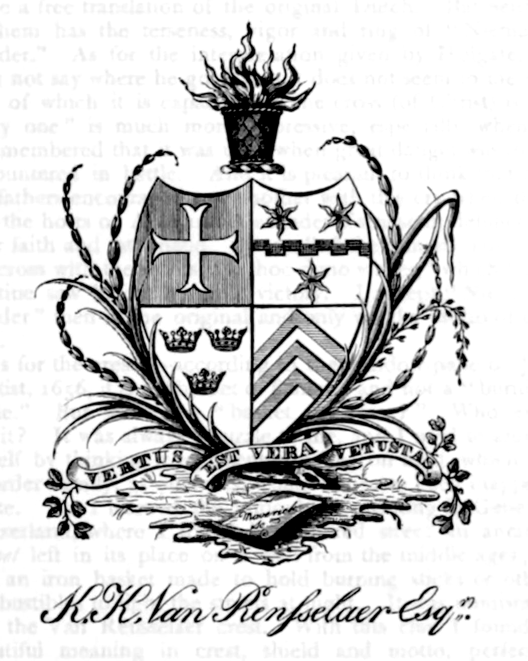 Coat of arms of the van Rensselaer family, which owned the Manor of Rensselaerswyck in New York, United States